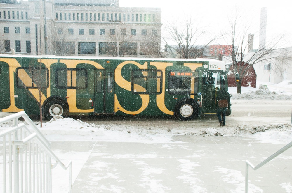 The best way for students to get from main campus to downtown.